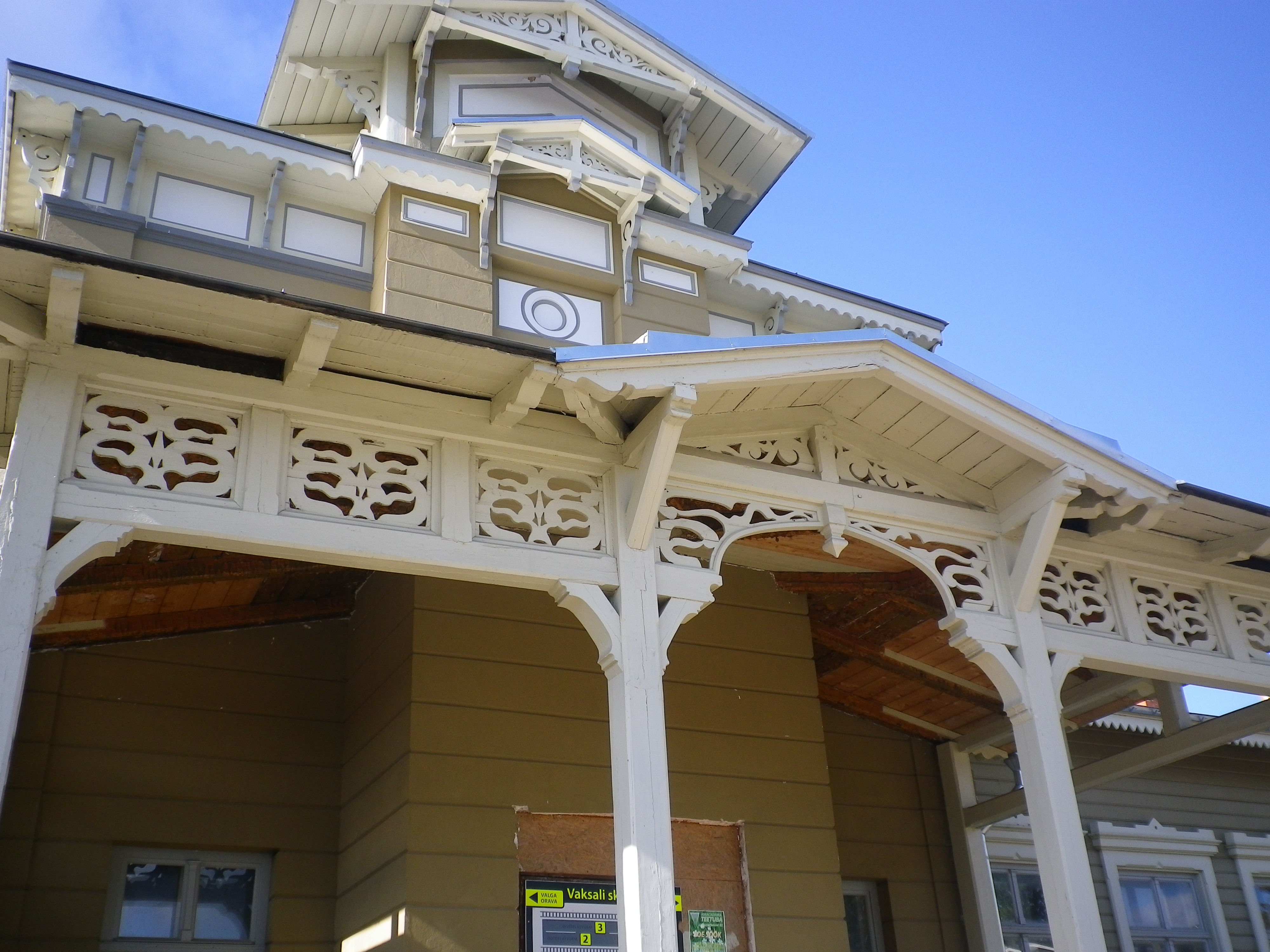 Tartu railway station, view from the street